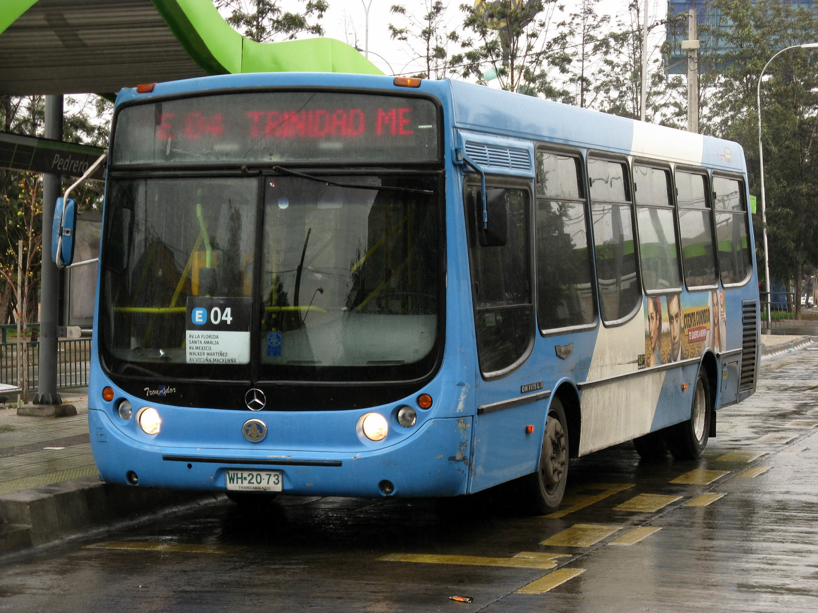 Metalpar Tronador bus (reg. WH-20-73) with Mercedes-Benz OH 1115 L chassis in Santiago de Chile, Chile. Transantiago, Zona E, E04.